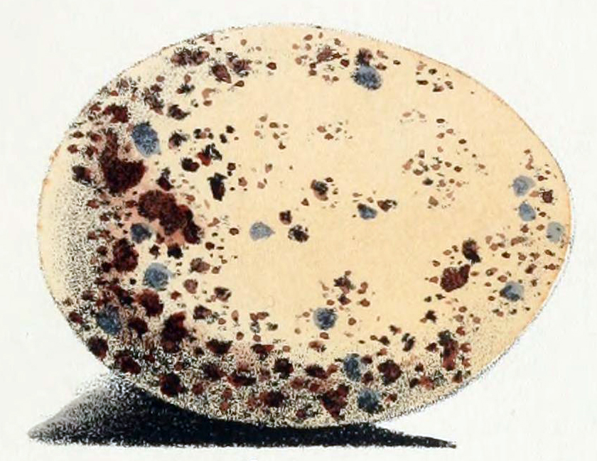 Bar-winged Rail (Nesoclopeus poecilopterus) egg